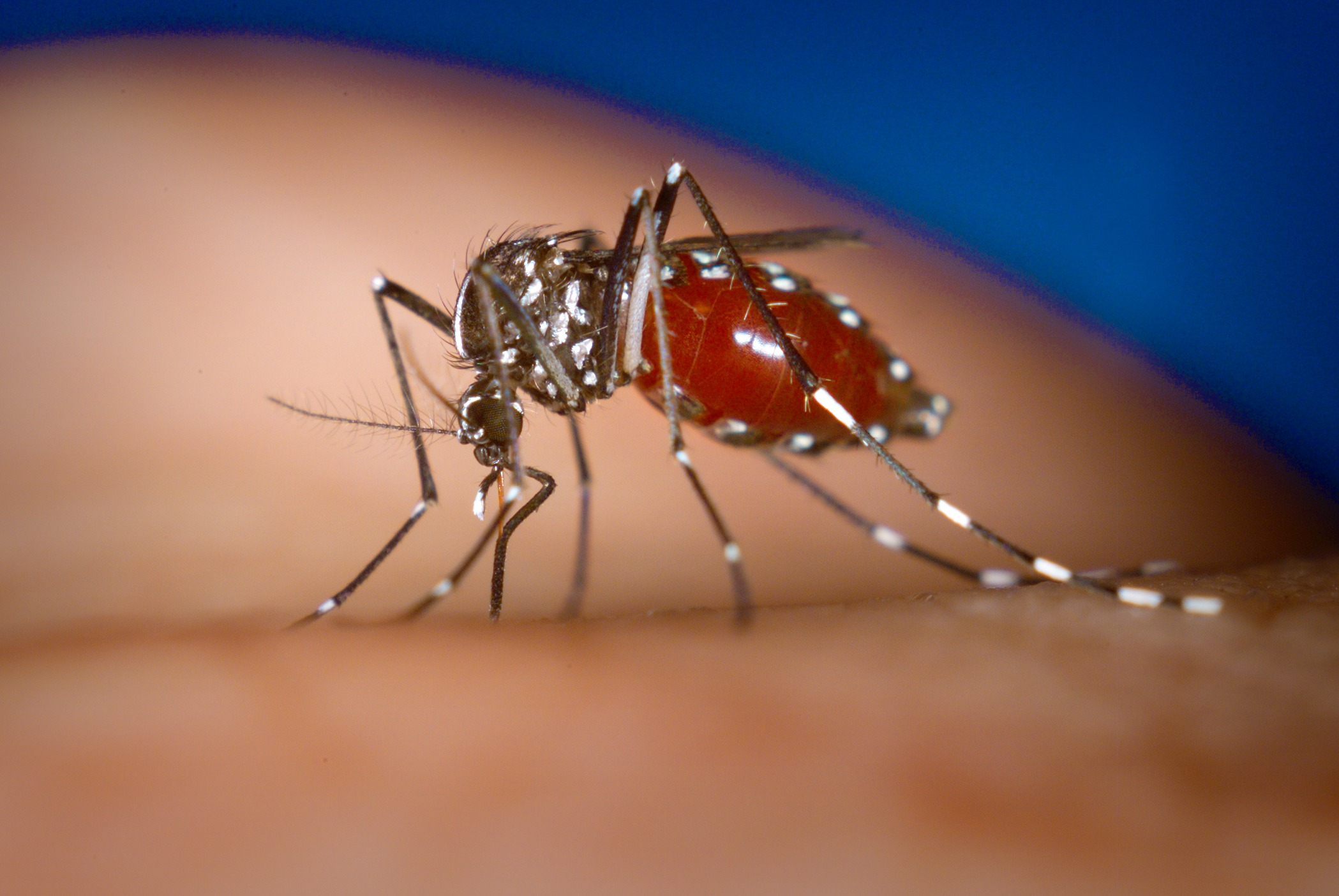 Aedes albopictus female mosquito feeding on a human host